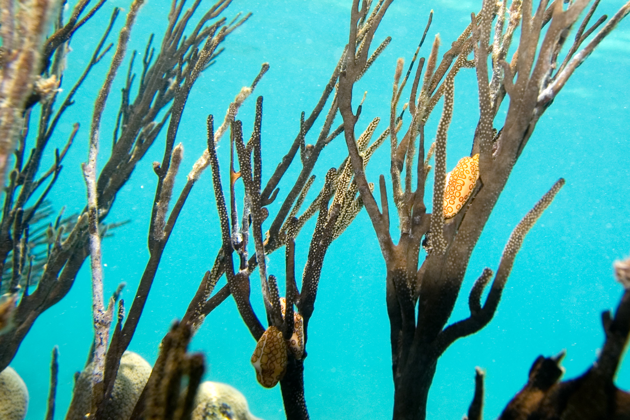 Cyphoma gibbosum on sea rods